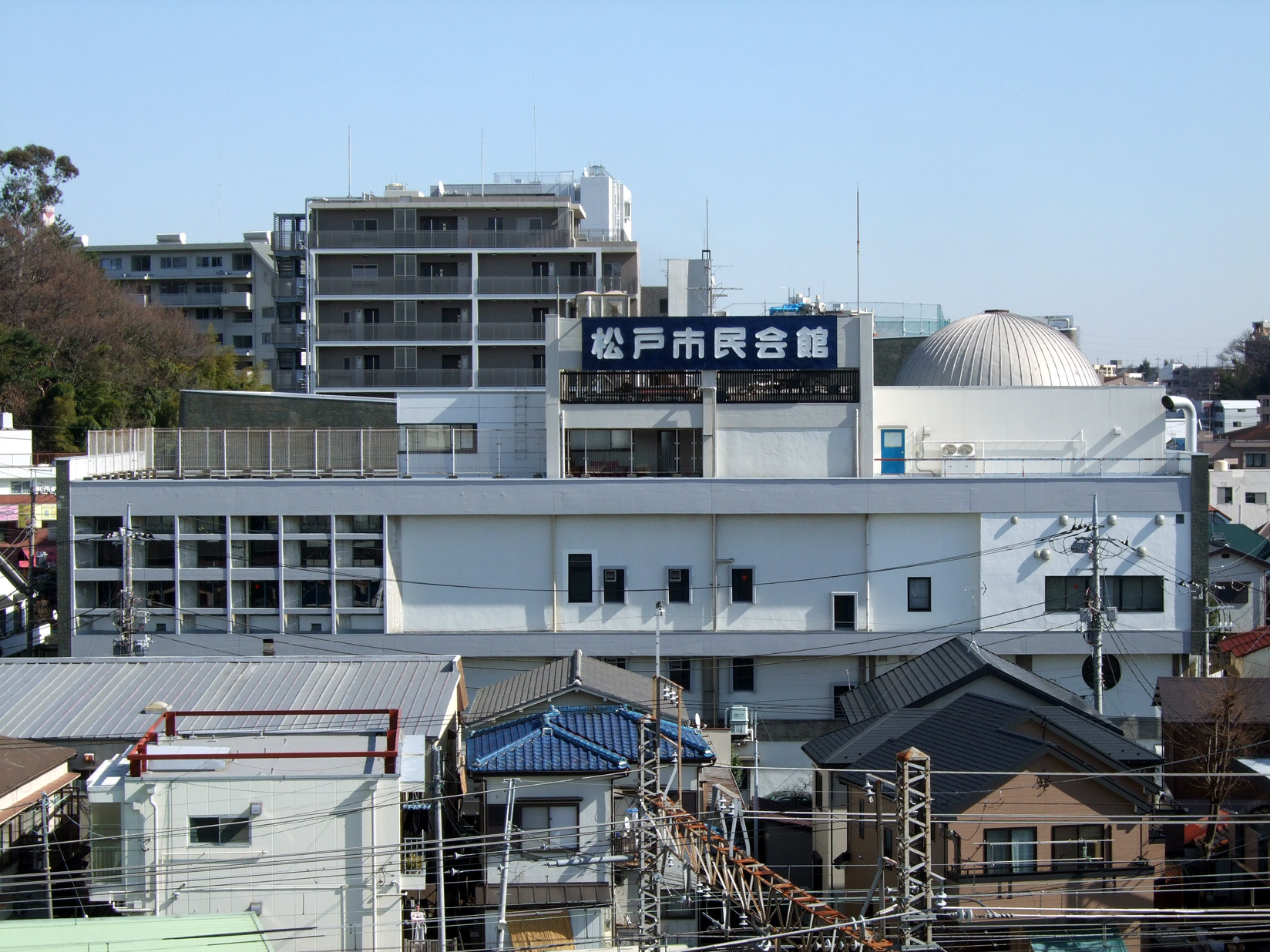 Side view of Matsudo Municipal Hall.